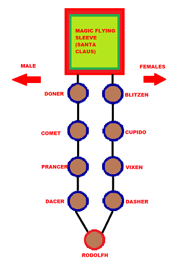 Esta es la posición de los renos.